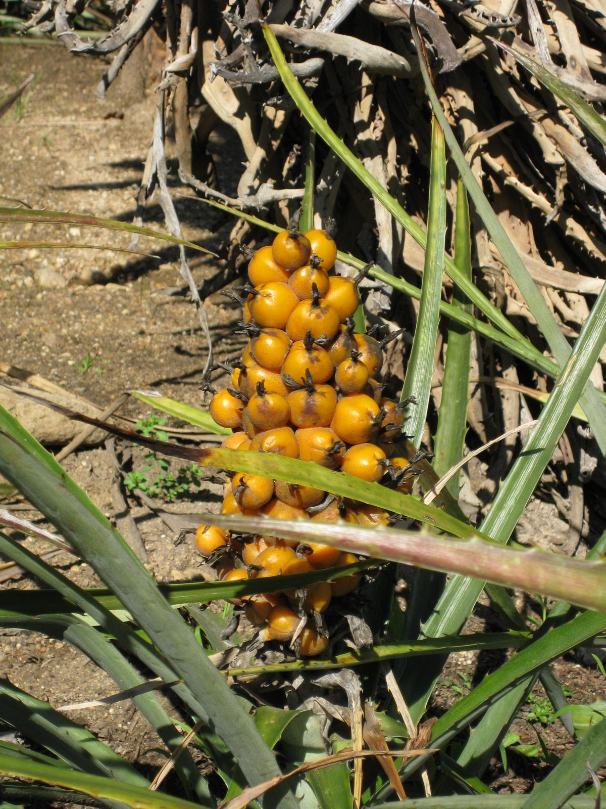 Photographed at Huntington Gardens (Los Angeles, California) in March